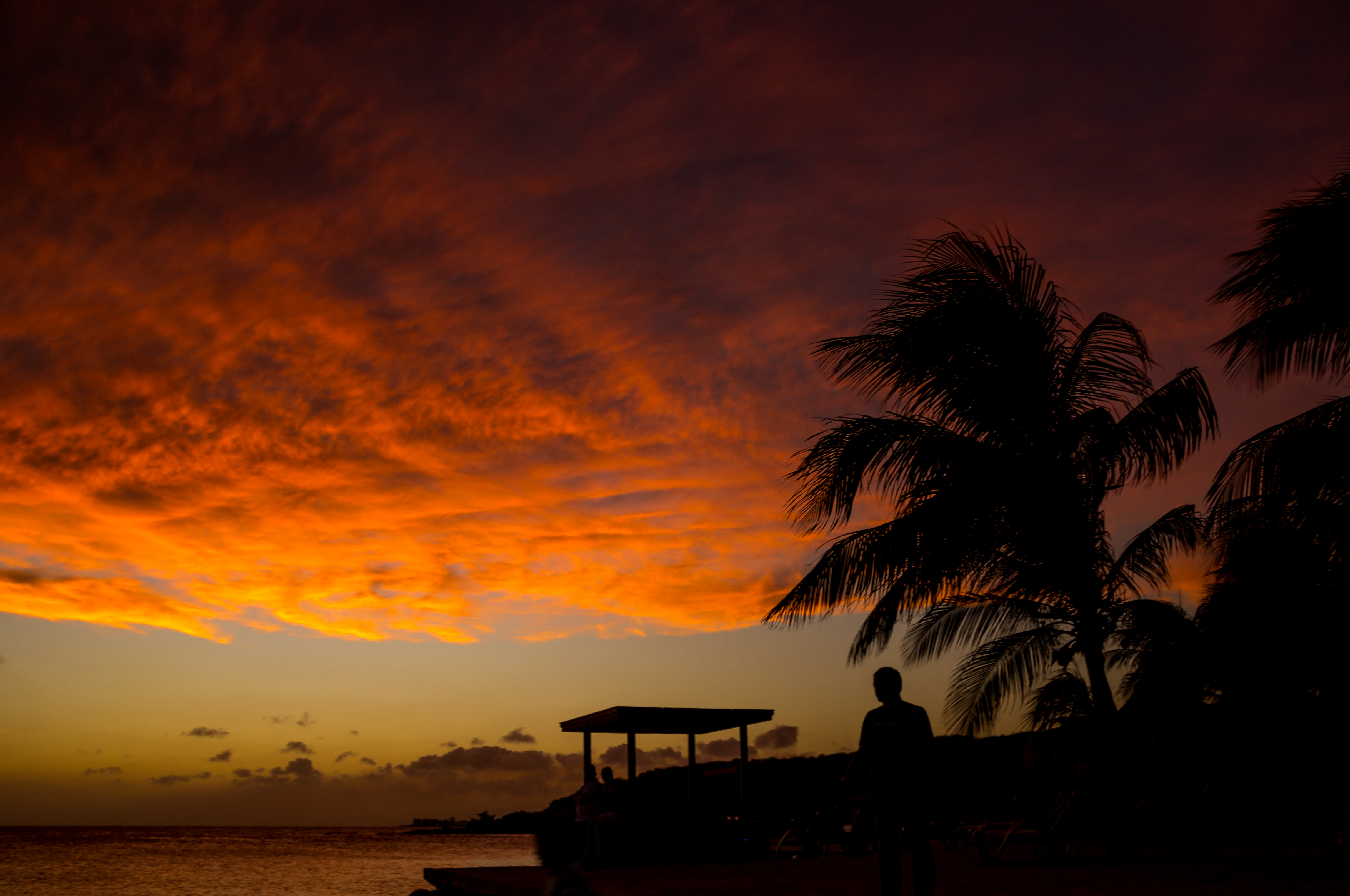 Curaçao